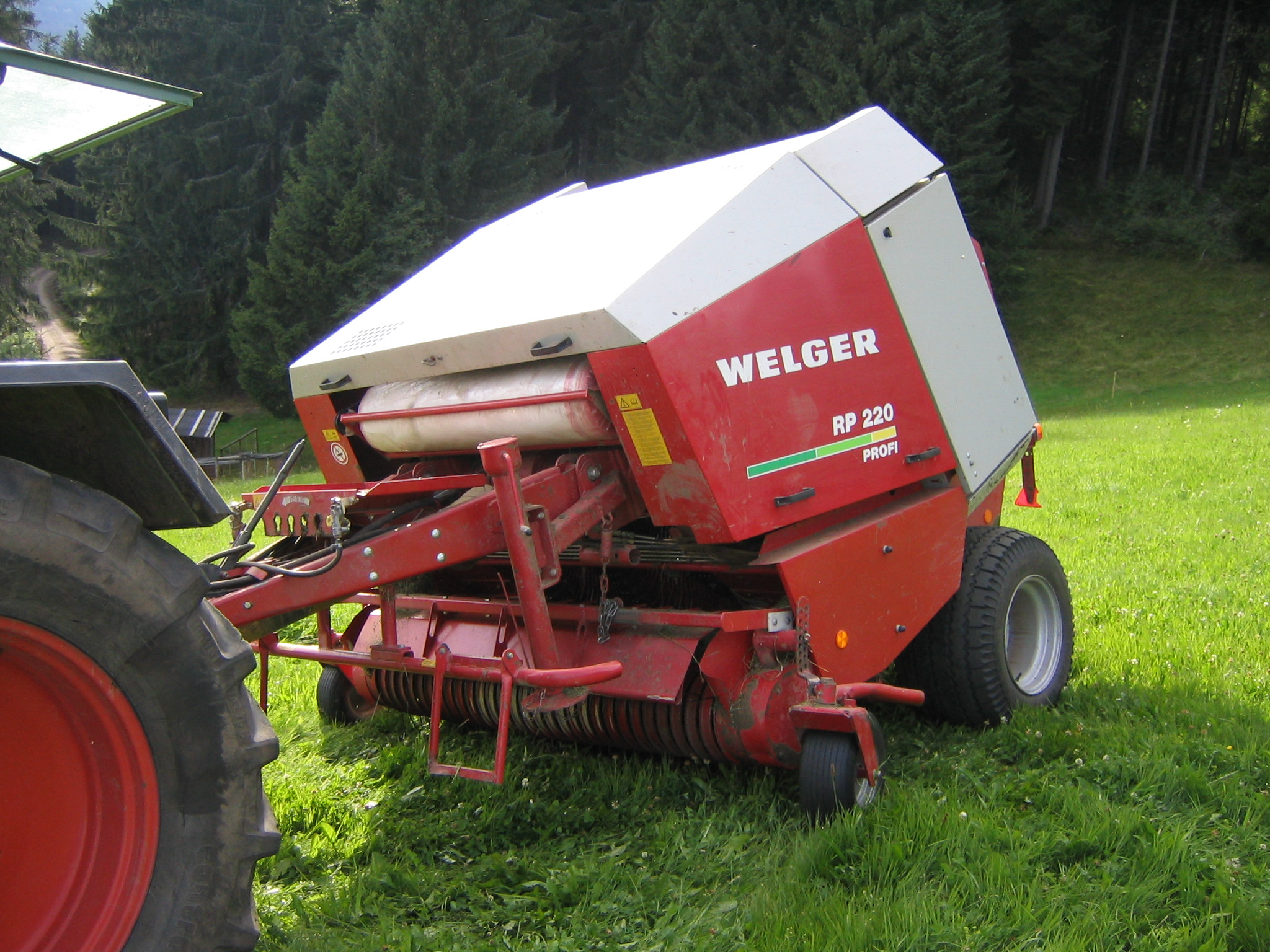 Round baler (Welger RP 220 Profi), backside